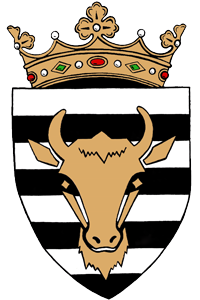 Coat of arms of Glodeni District (Moldova)